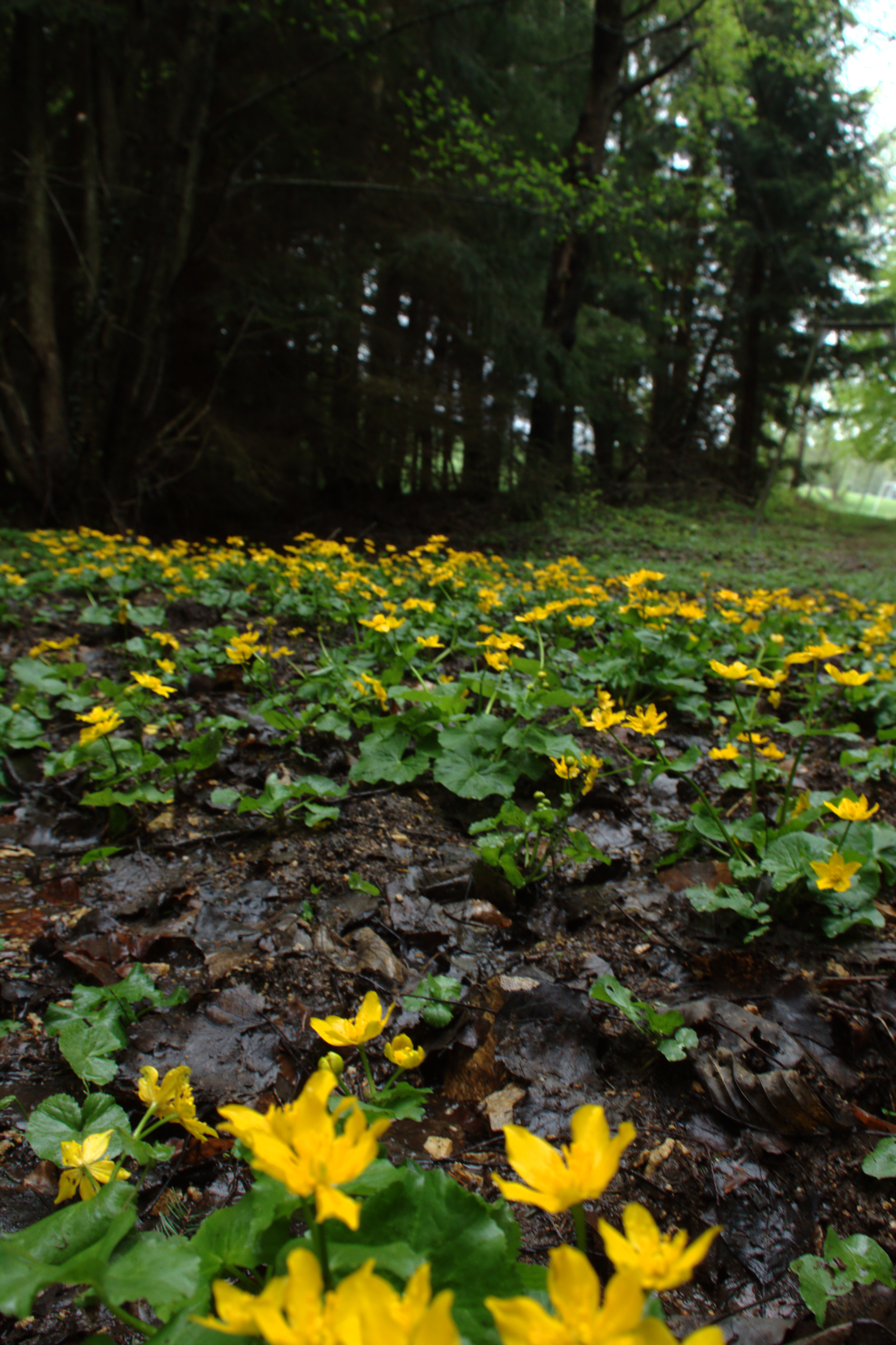 Northernmost part of the Horní luka protected area, northen slope of the hill of Kleť, South Bohemian Region, Czech Republic showing a vegetation of primarily Caltha palustris Project: Chráněná území